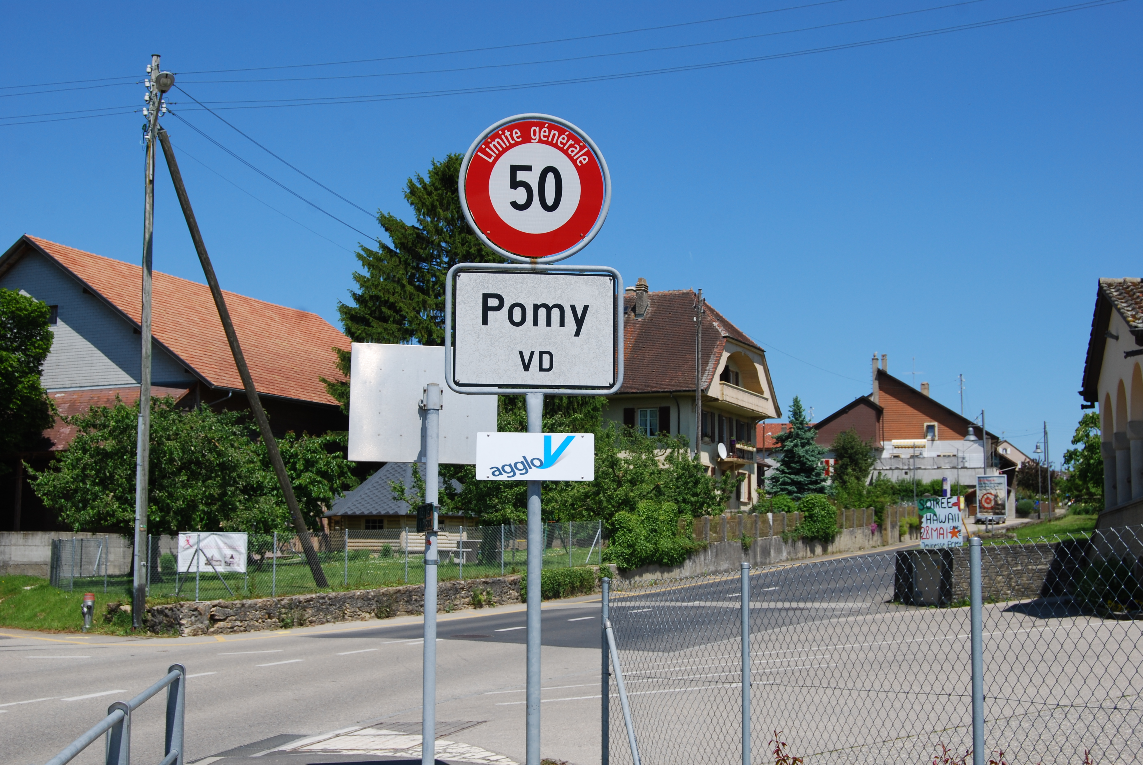 Pomy, canton of Vaud, SwitzerlandEsperanto: Pomy, Kantono Vaŭdo, Svislando